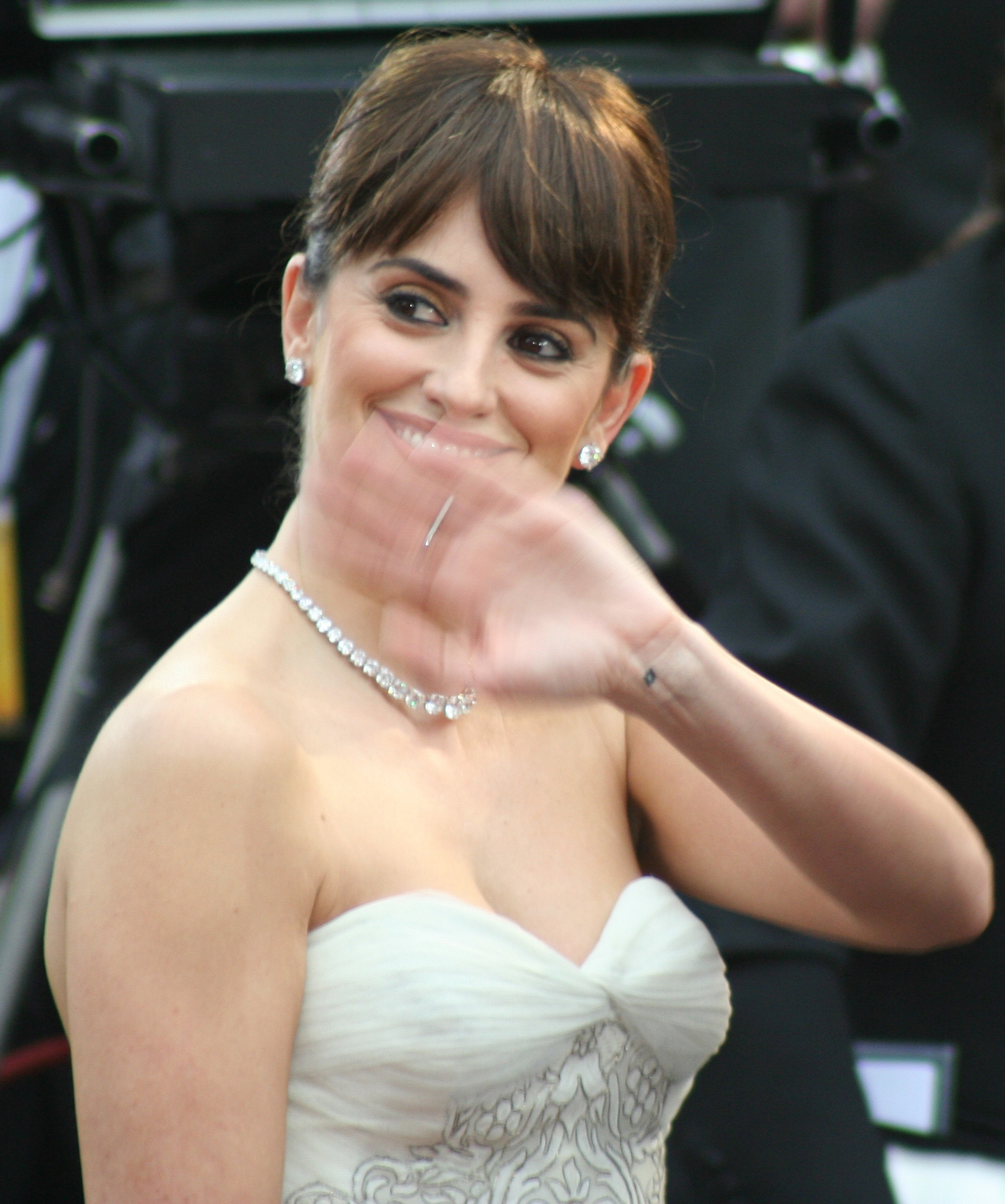 Penélope Cruz at the 81st Academy Awards depicted person: Penélope Cruz (age: 34.82)